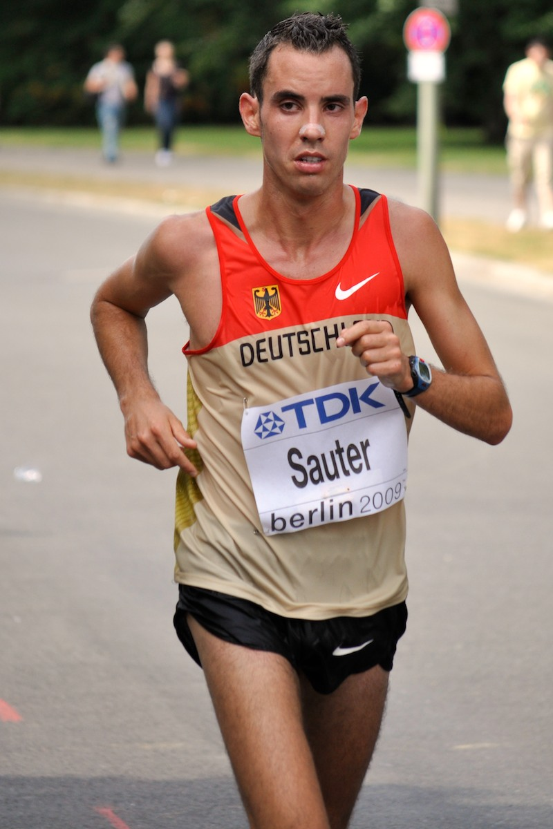 Tobias Sauter during the Marathon race at the IAAF World Championships in Athletics 2009 in Berlin